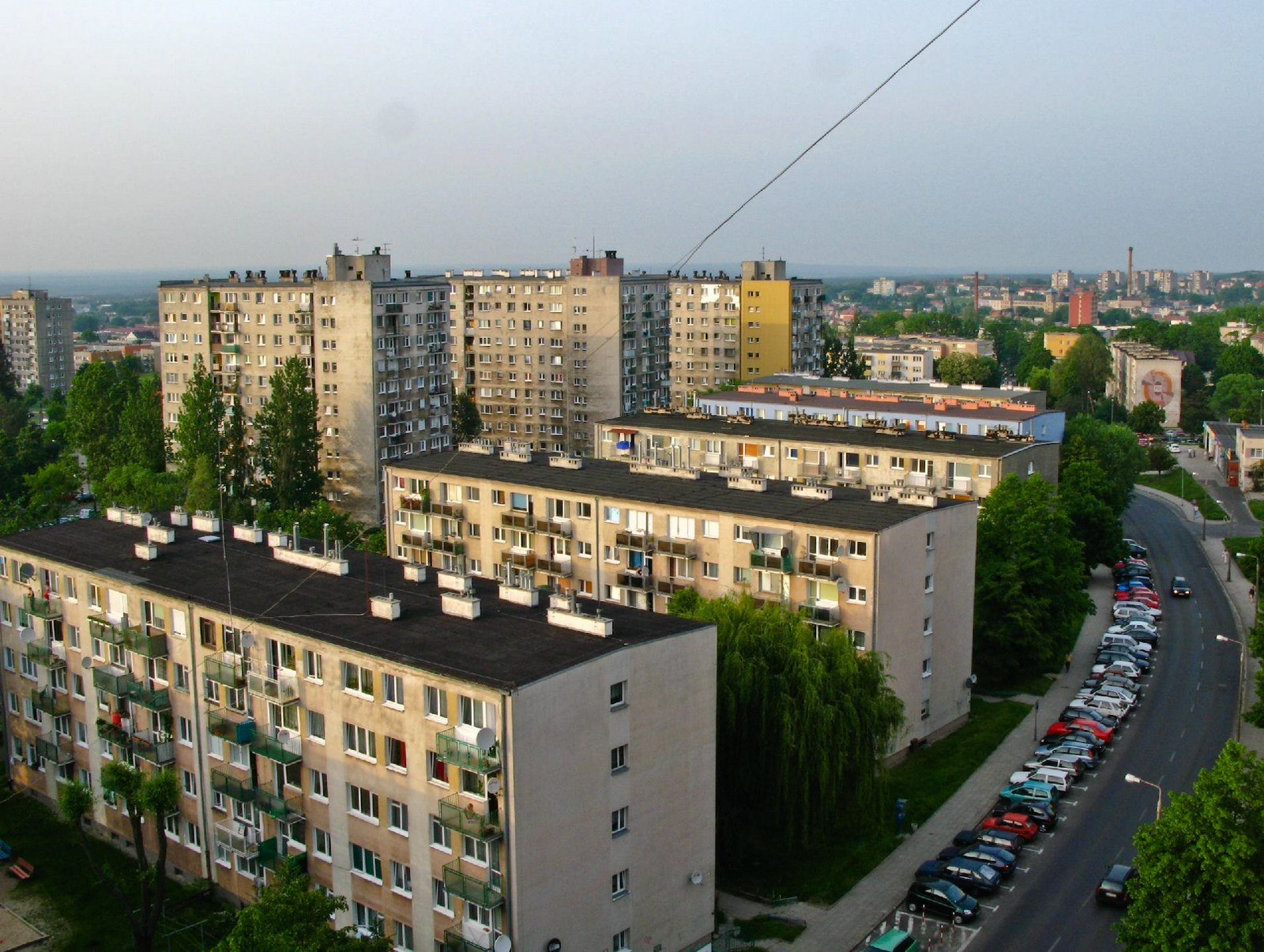 Piastowskie housing district, view to Ptasia street